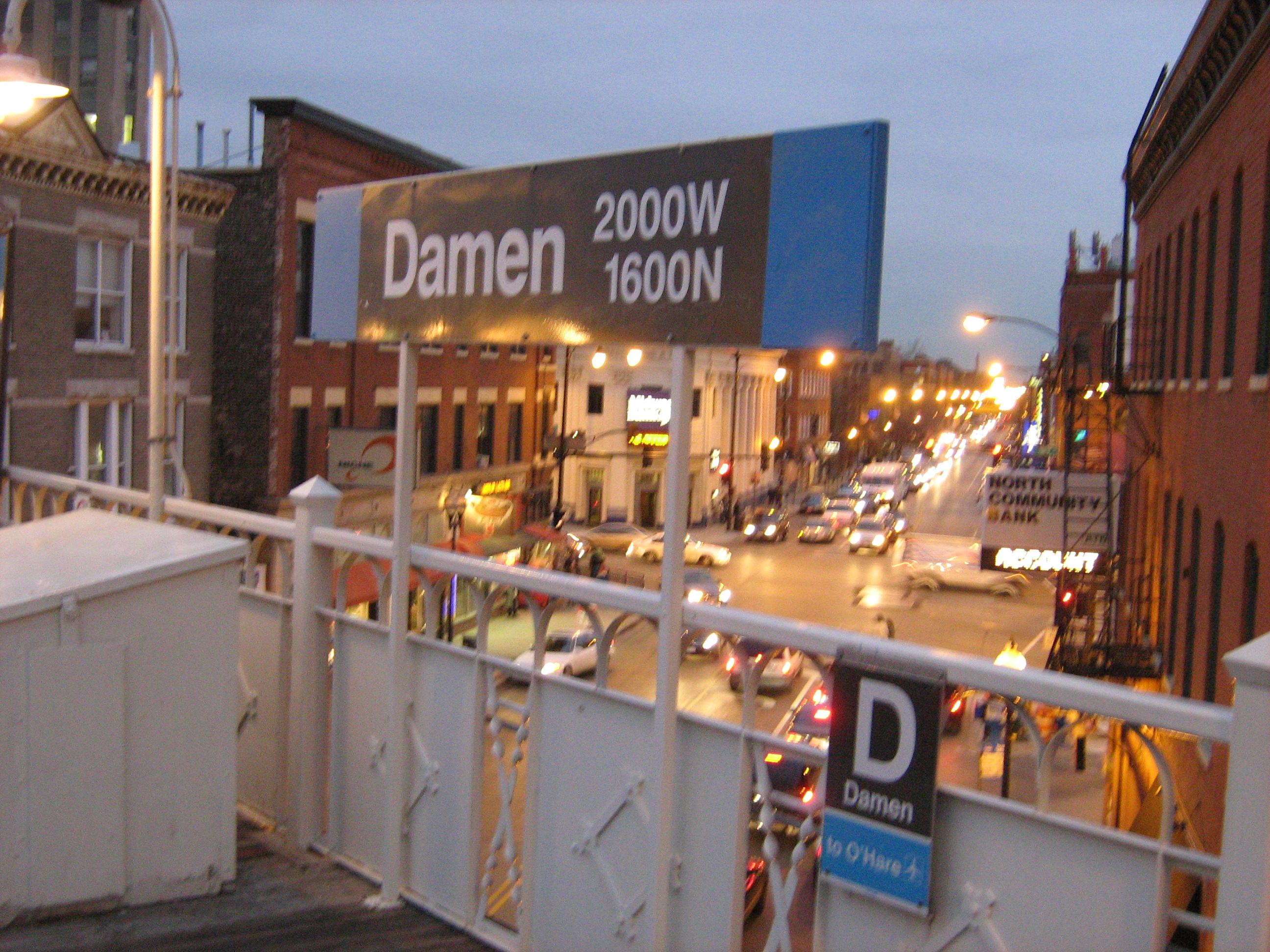 Damen Avenue, Milwaukee Avenue & North Avenue (2000W/1600N) 1588 N. Damen Ave. Chicago, IL 60622 Blue Line (O'Hare Branch)